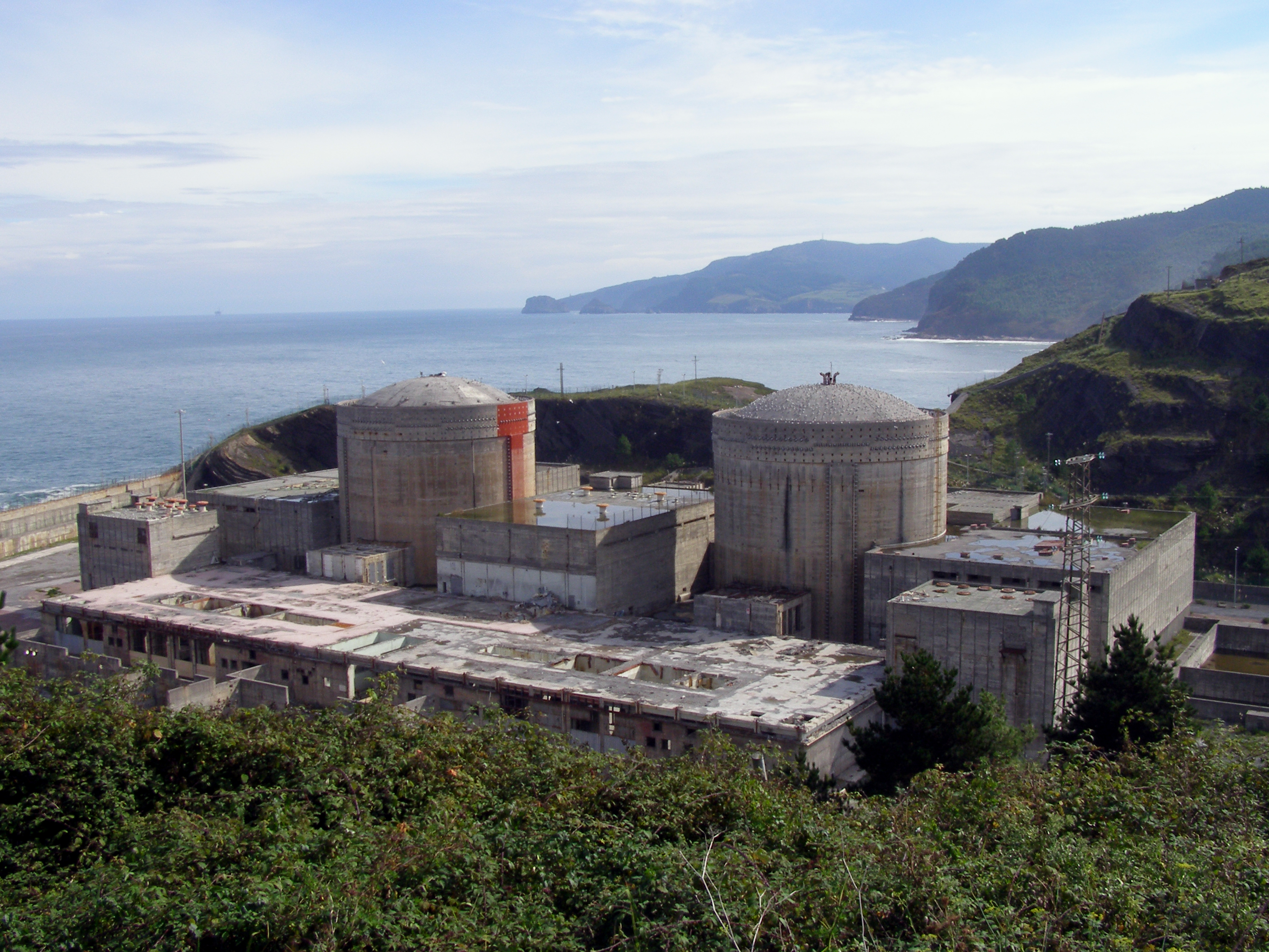 West view of the nuclear power plant of Lemóniz. At the background, Cape Machichaco and Gaztelugatxe and Aketx islands